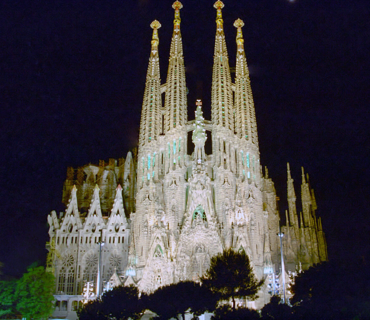 Church Sagrada Familia (Barcelona) from Plaça de Gaudí. Lighting by engineer Carles Buïgas i Sans.